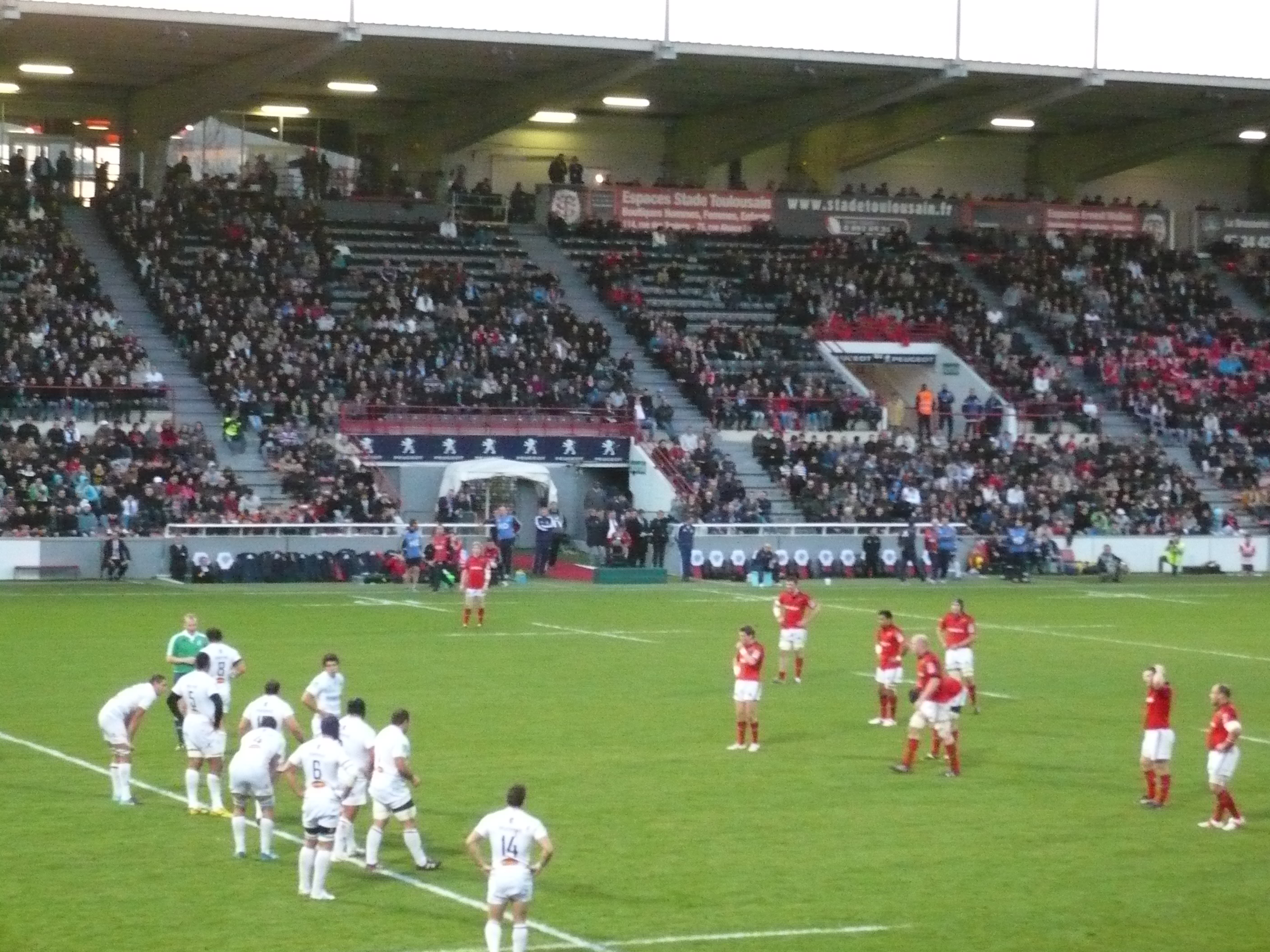 CO Munster